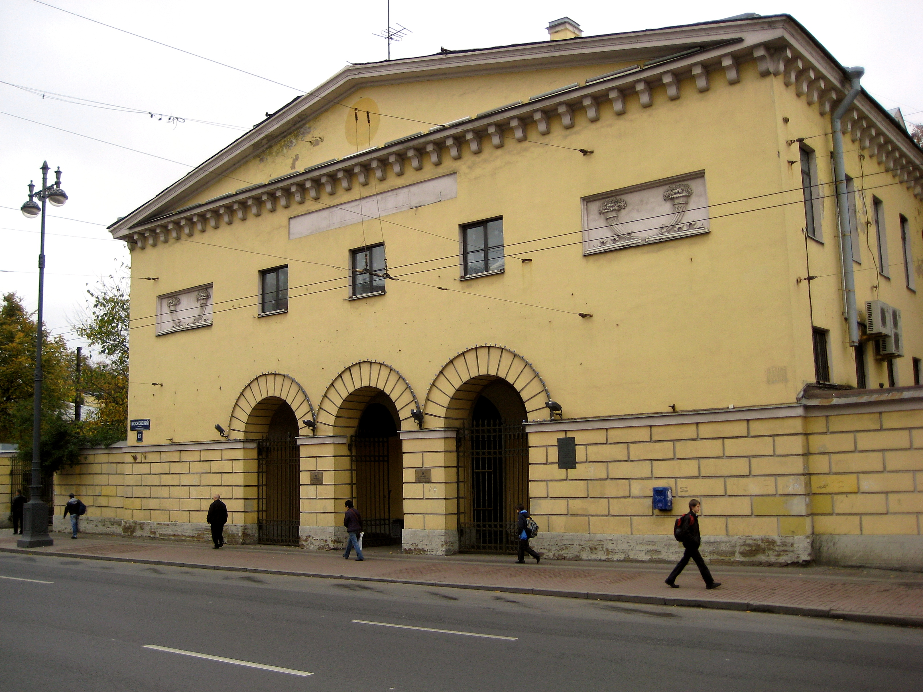 Stockyard. Main body: Moskovsky Prospect, 65, Admiralteysky District, Saint Petersburg